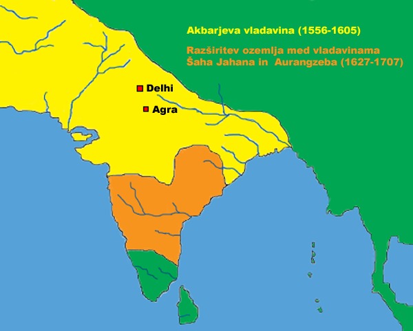 Mughal Empire, map in slovenian language by Ziga 14:25, 5 November 2006 (UTC)